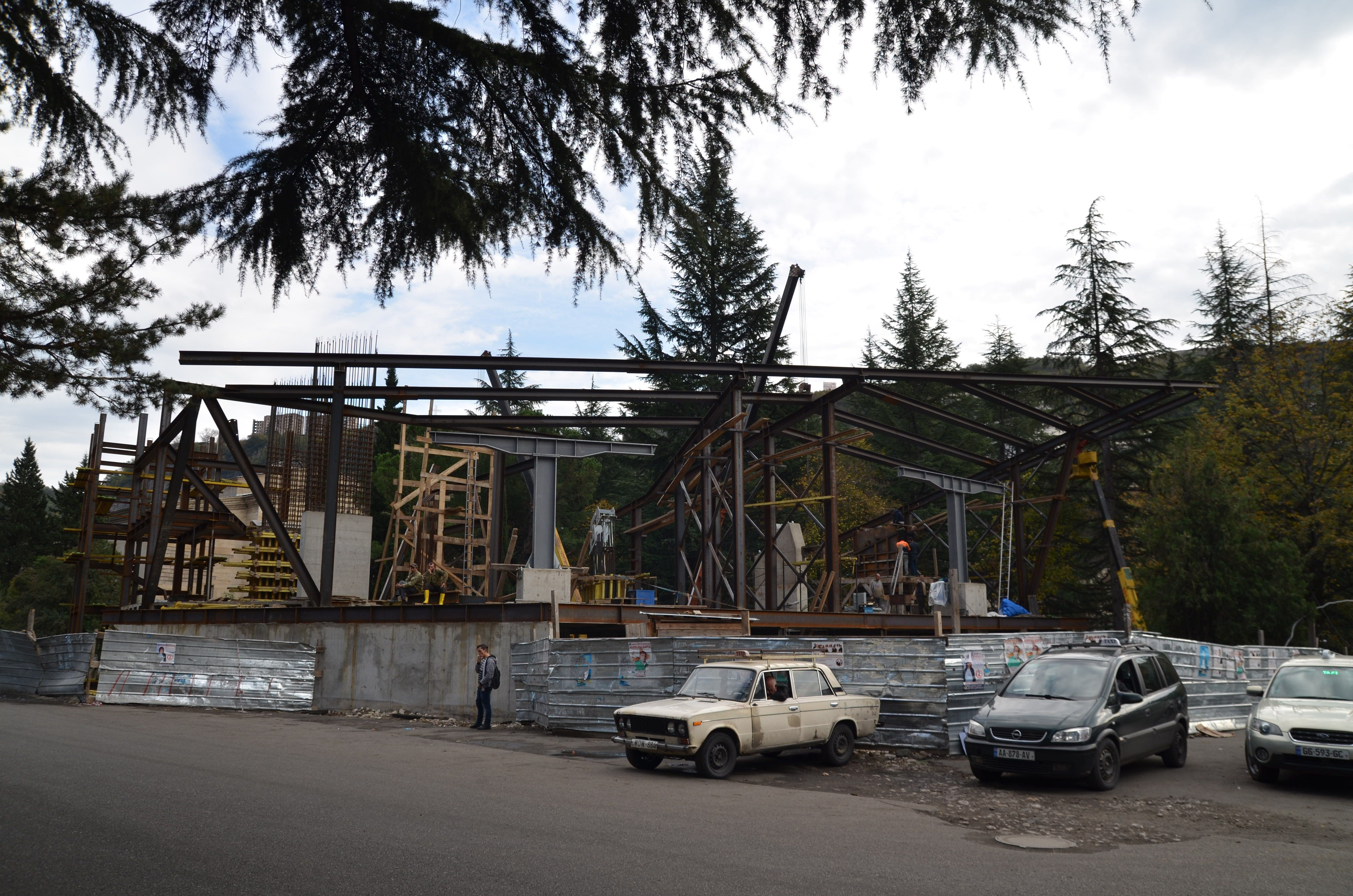 Construction site for new central ropeway station in Chiatura